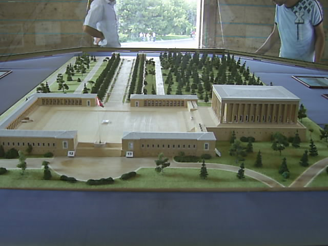 The miniature of Anitkabir